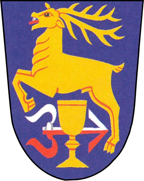 Municipal coat of arms of Javorník village, Hodonín District, Czech Republic.